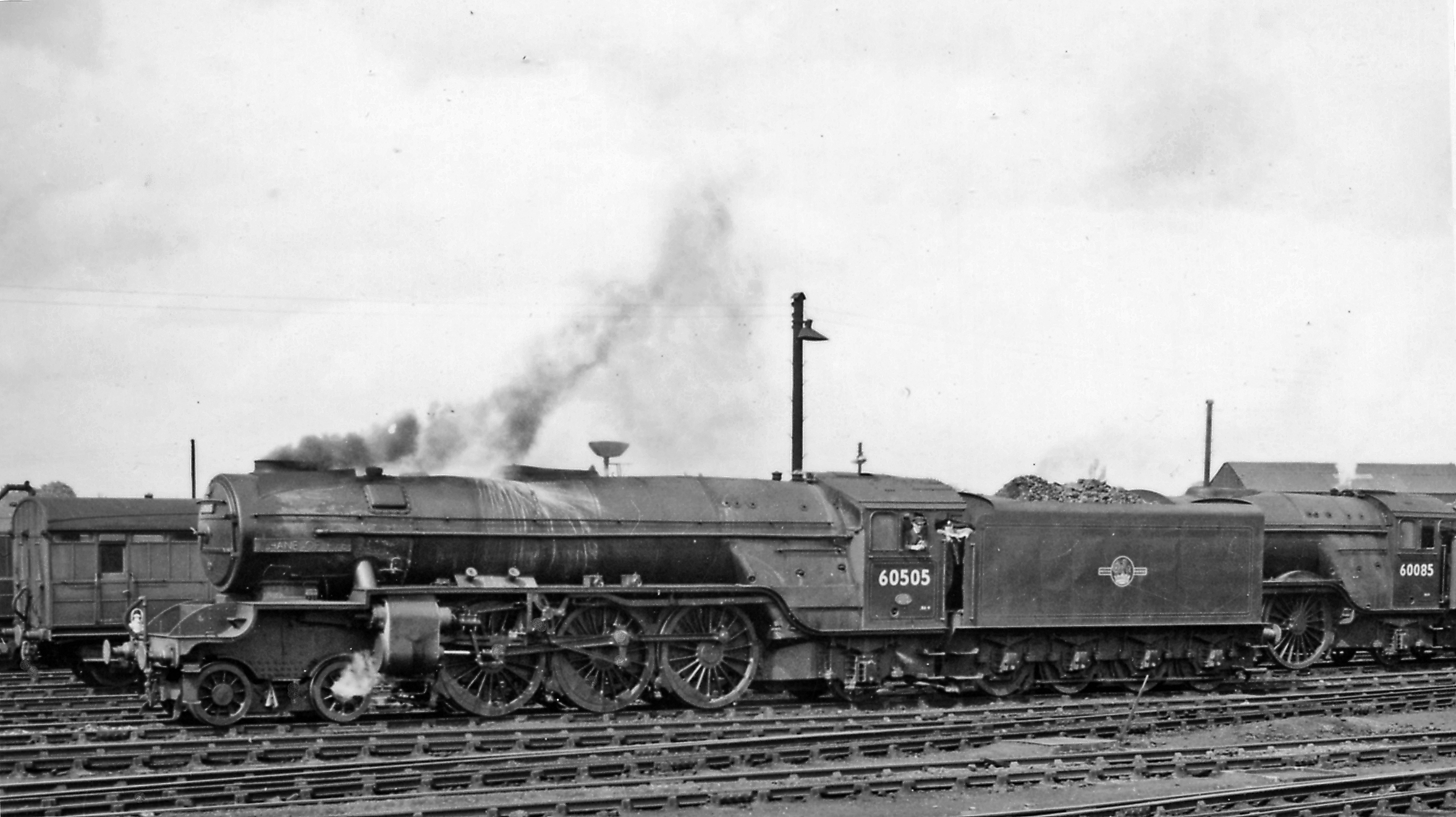 A2/2 Pacific in York Locomotive Yard. View eastward from the road that ran alongside the array of engines to be seen at this major Depot in those days. No. 60505 'Thane of Fife' was a Thompson rebuild (1/43) of Gresley P2 2-8-2 No. 2005 (built 8/36), lasting only until 11/59: behind it is Gresley A3 No. 60085 'Manna'.